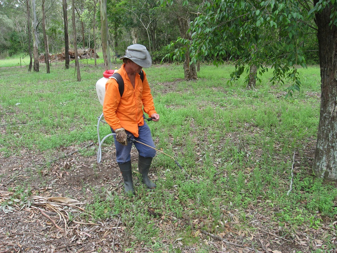 Weed control in action